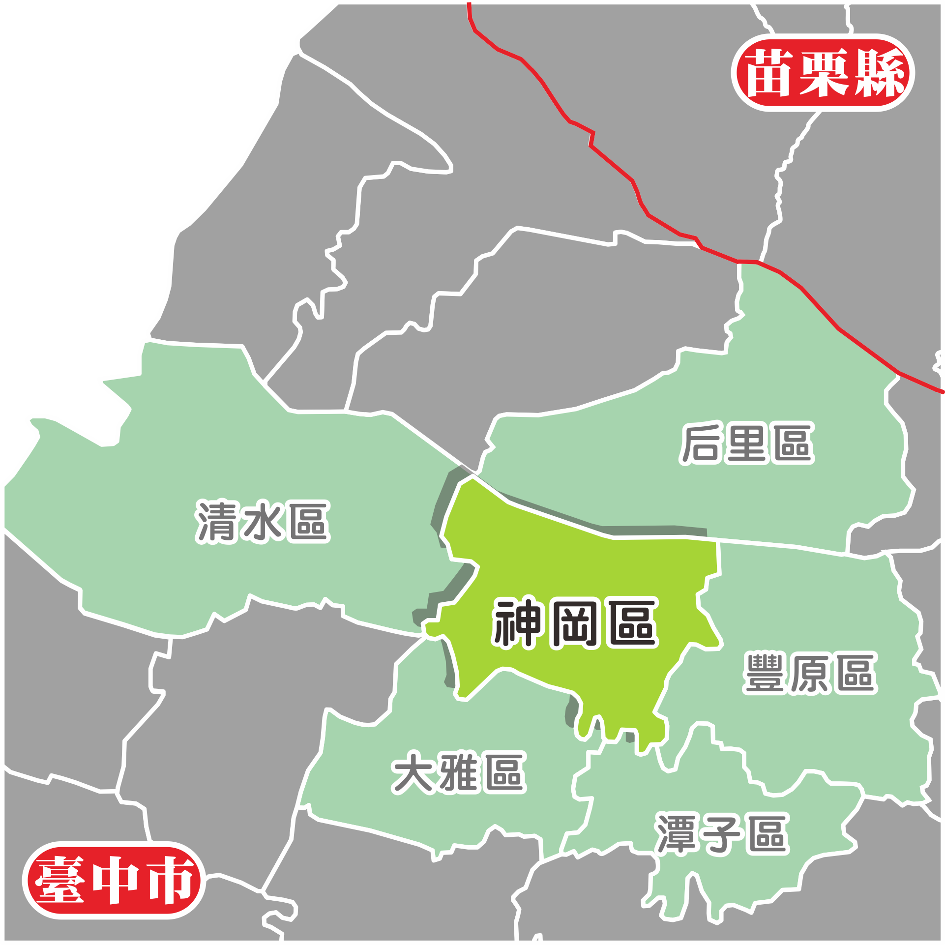 Shengang District